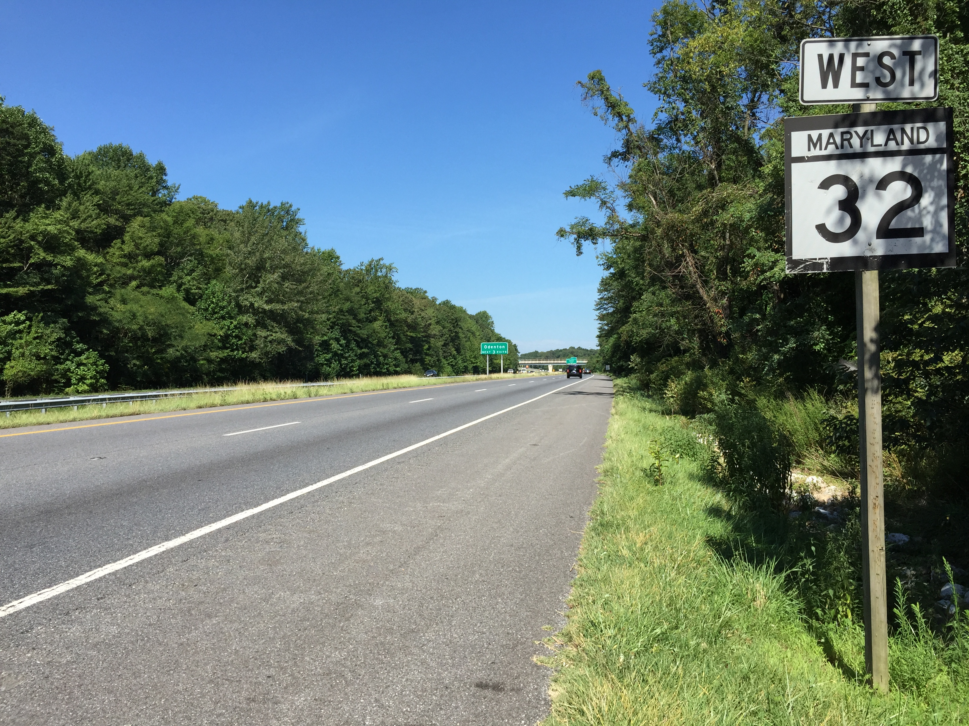 View west along Maryland State Route 32 (Patuxent Freeway) just west of Interstate 97 and Maryland State Route 3 (Crain Highway) in Gambrills, Anne Arundel County, Maryland